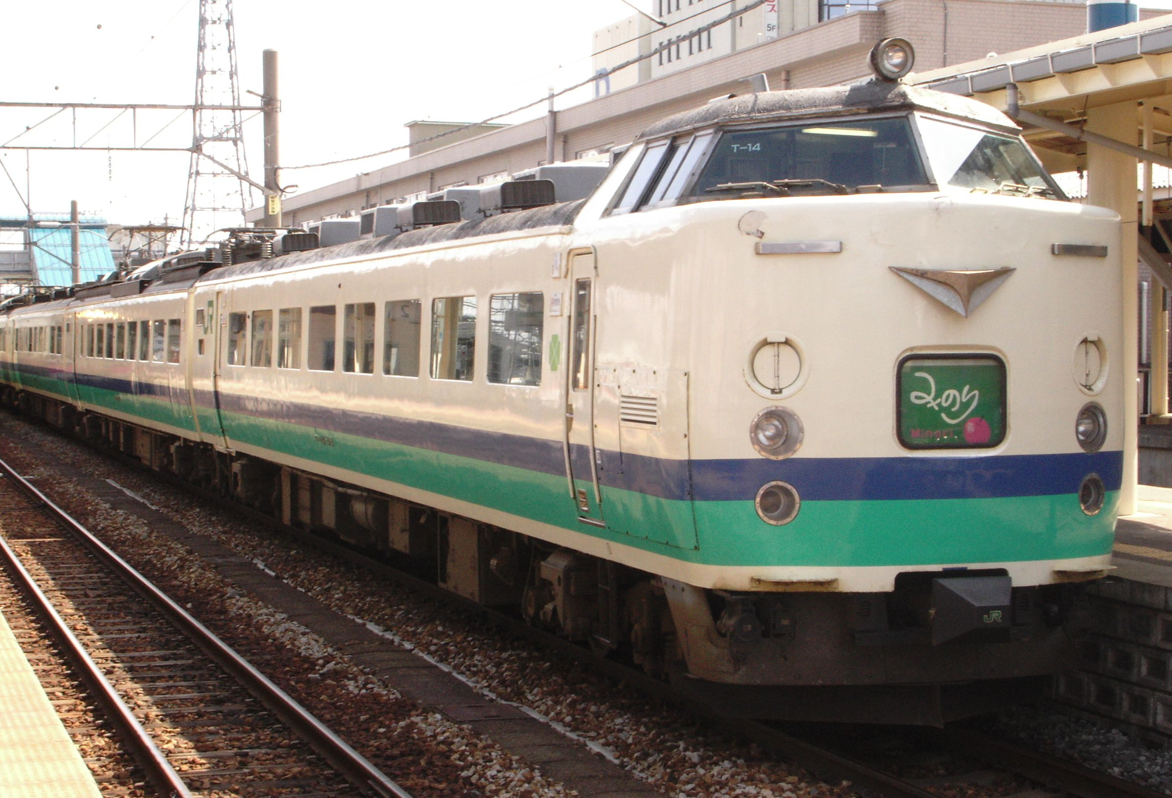 JR East 485 series EMU on a Minori limited express service at Sakata Station